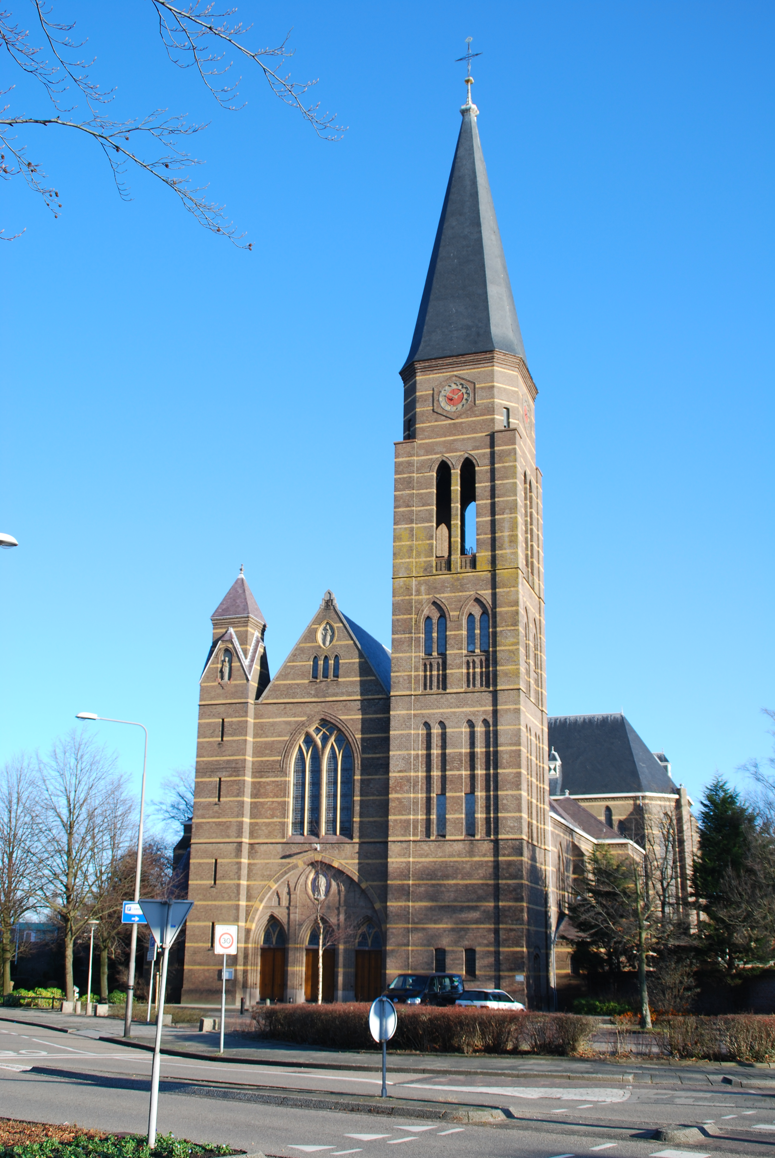 Pancratiuskerk - Sassenheim, the Netherlands. By Jos Tonnaer (1913)